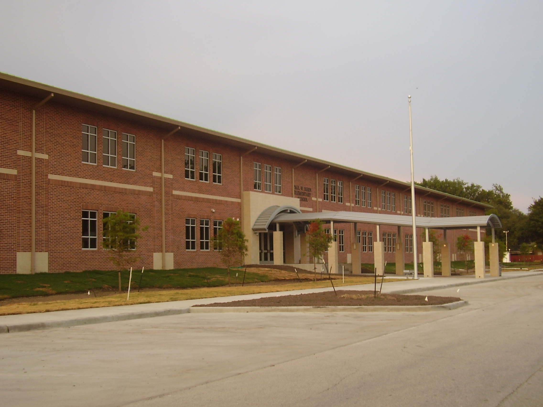 Paul W. Horn Elementary School